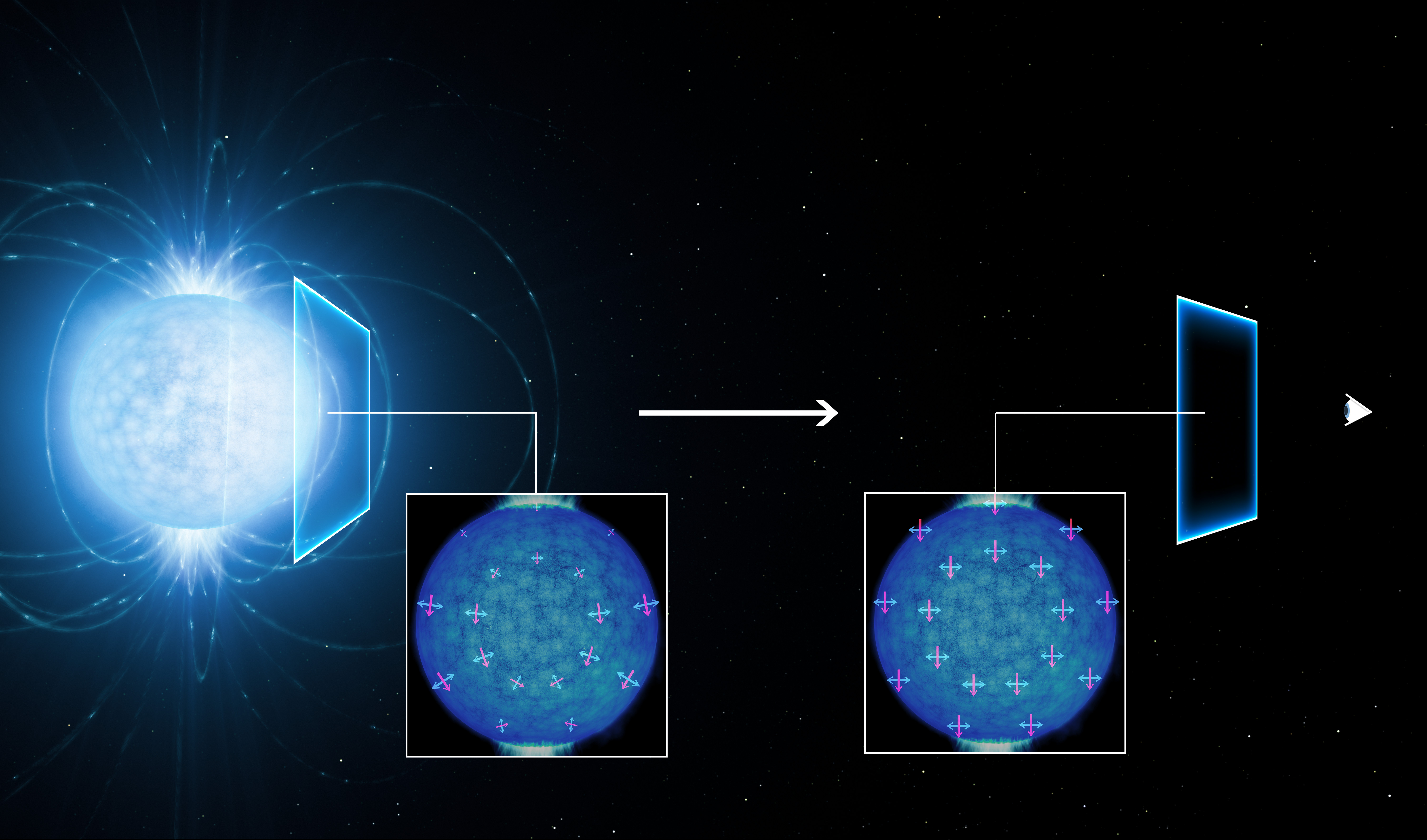 This artist’s view shows how the light coming from the surface of a strongly magnetic neutron star (left) becomes linearly polarised as it travels through the vacuum of space close to the star on its way to the observer on Earth (right). The polarisation of the observed light in the extremely strong magnetic field suggests that the empty space around the neutron star is subject to a quantum effect known as vacuum birefringence, a prediction of quantum electrodynamics (QED). This effect was predicted in the 1930s but has not been observed before. The magnetic and electric field directions of the light rays are shown by the red and blue lines. Model simulations by Roberto Taverna (University of Padua, Italy) and Denis Gonzalez Caniulef (UCL/MSSL, UK) show how these align along a preferred direction as the light passes through the region around the neutron star. As they become aligned the light becomes polarised, and this polarisation can be detected by sensitive instruments on Earth.